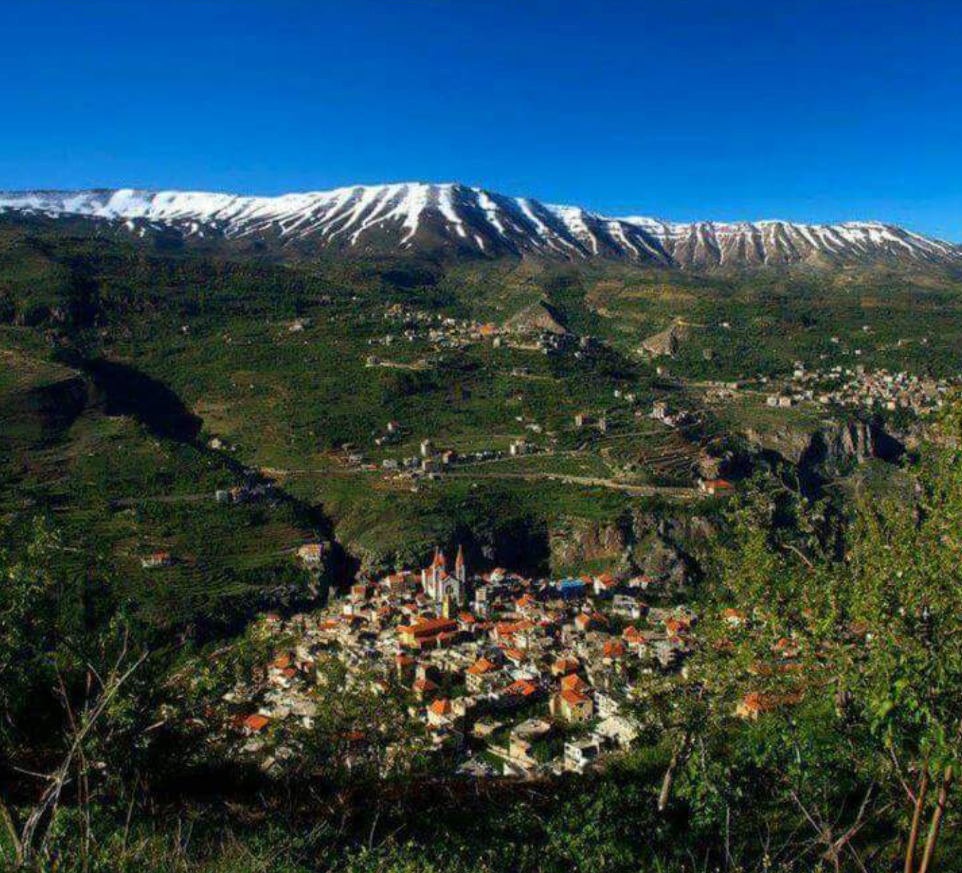 Bsharri